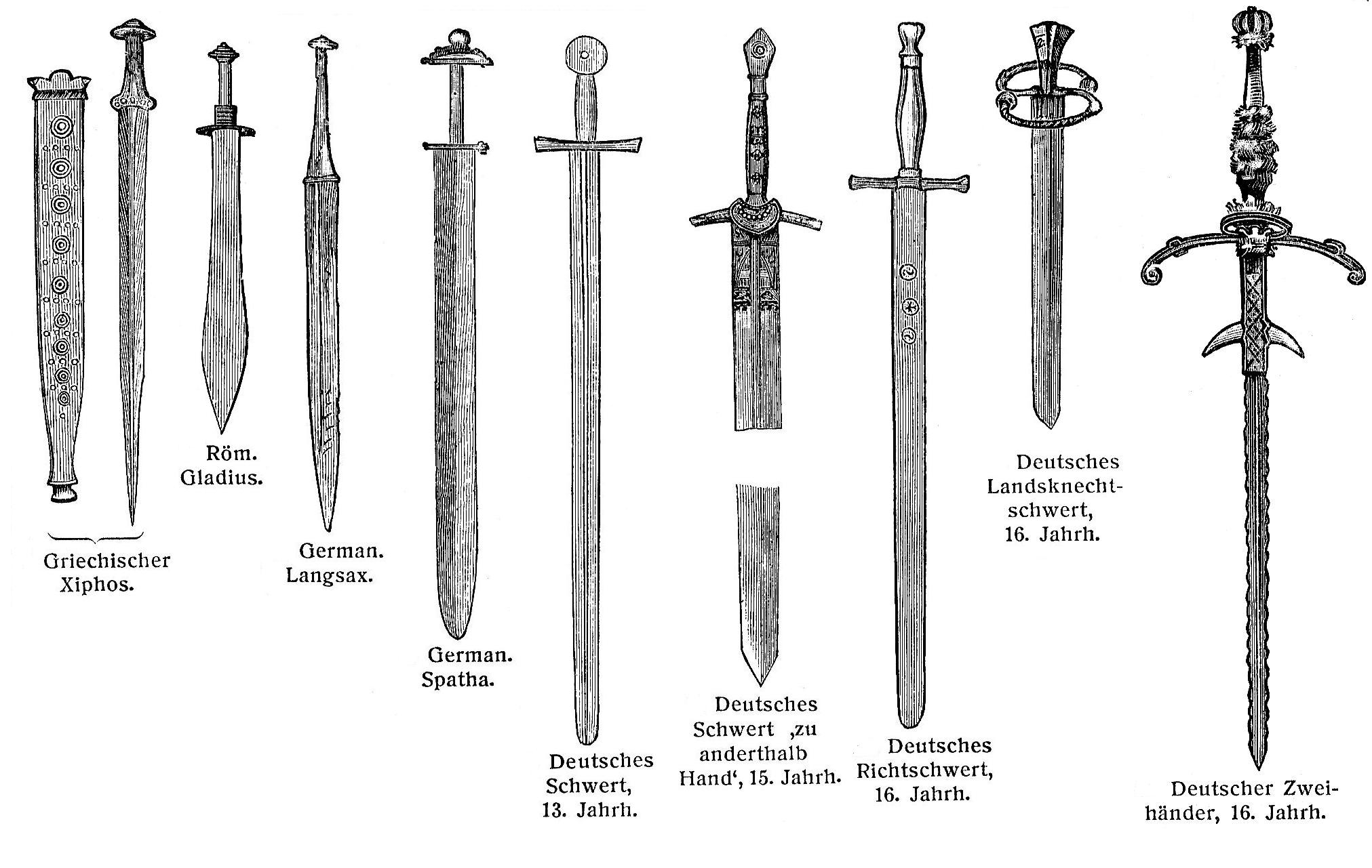 Different sword-types.